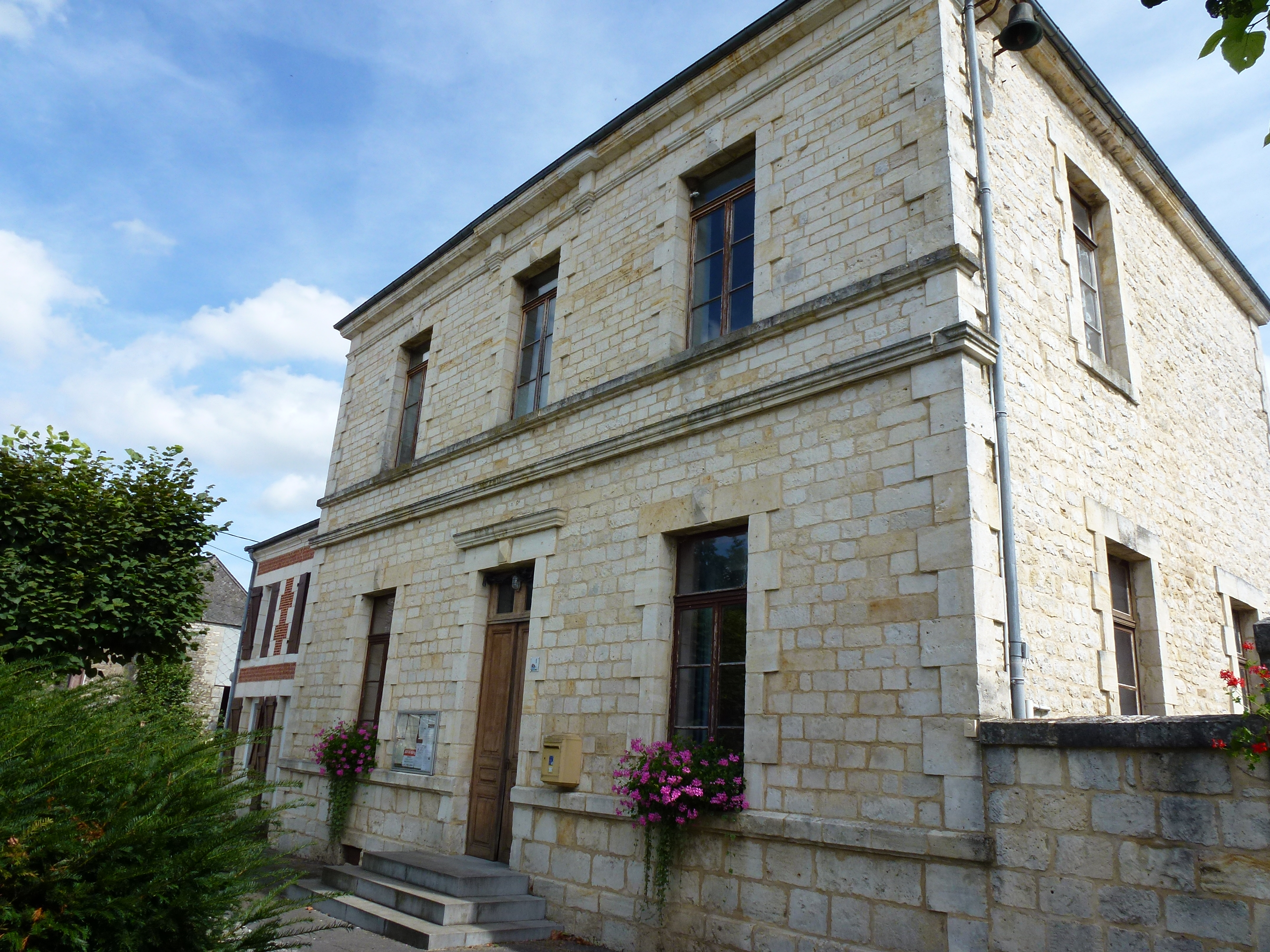 Bossus-lès-Rumigny (Ardennes) mairie